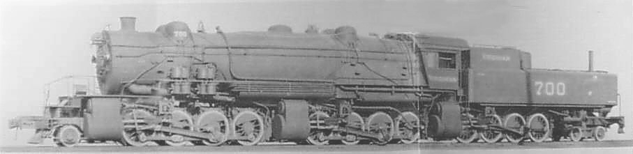 The only Triplex locomotive of Virginian Railway, XA Class, by 1916 Furlan: La seule locomotive Triplex de la compagnie Virginian Railway, de la classe XA, en 1916